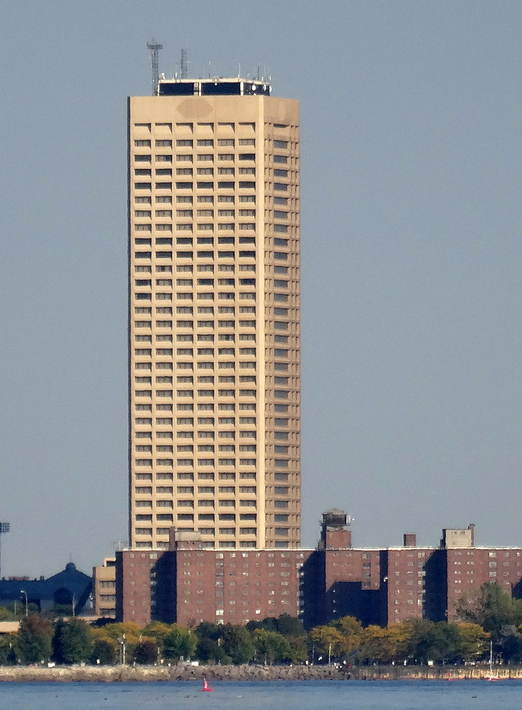 Seneca One Tower